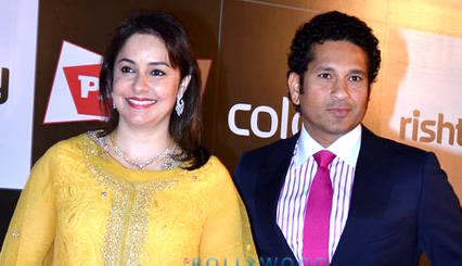 Sachin Tendulkar with wife Anjali Tendulkar at the launch of Celebrity Cricket League - Season 4